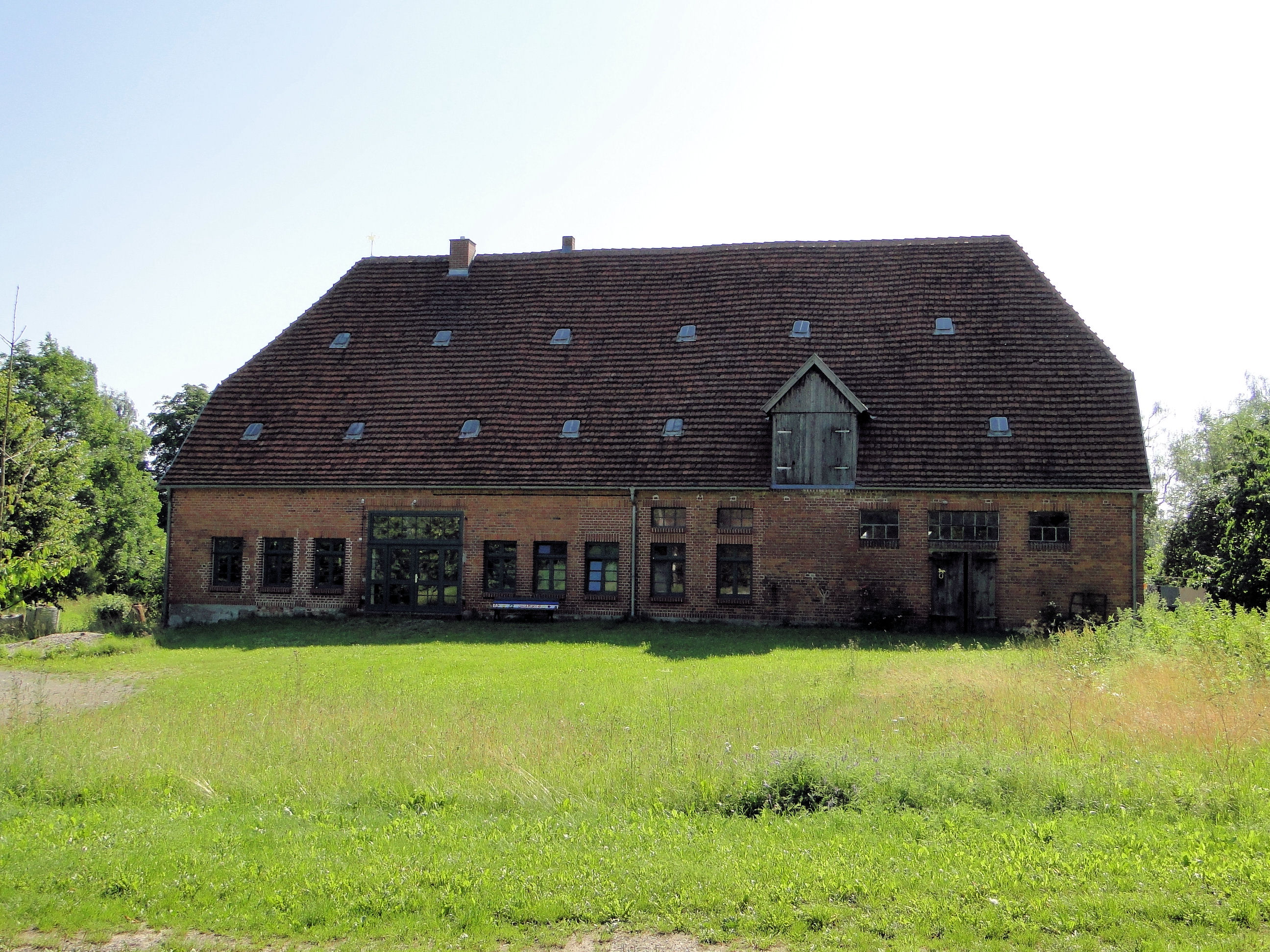 Building in Rum Kogel, district Güstrow, Mecklenburg-Vorpommern, Germany